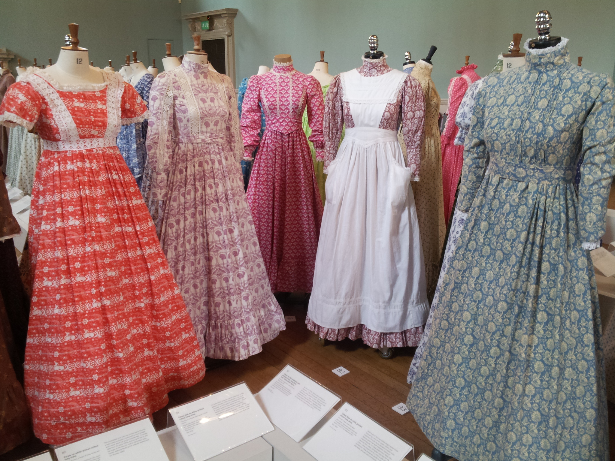 Printed cotton dresses made by Laura Ashley in the mid 1970s, on display at the Fashion Museum, Bath, 2013. Visitors to the exhibition were explicitly encouraged to take photographs for digital sharing.